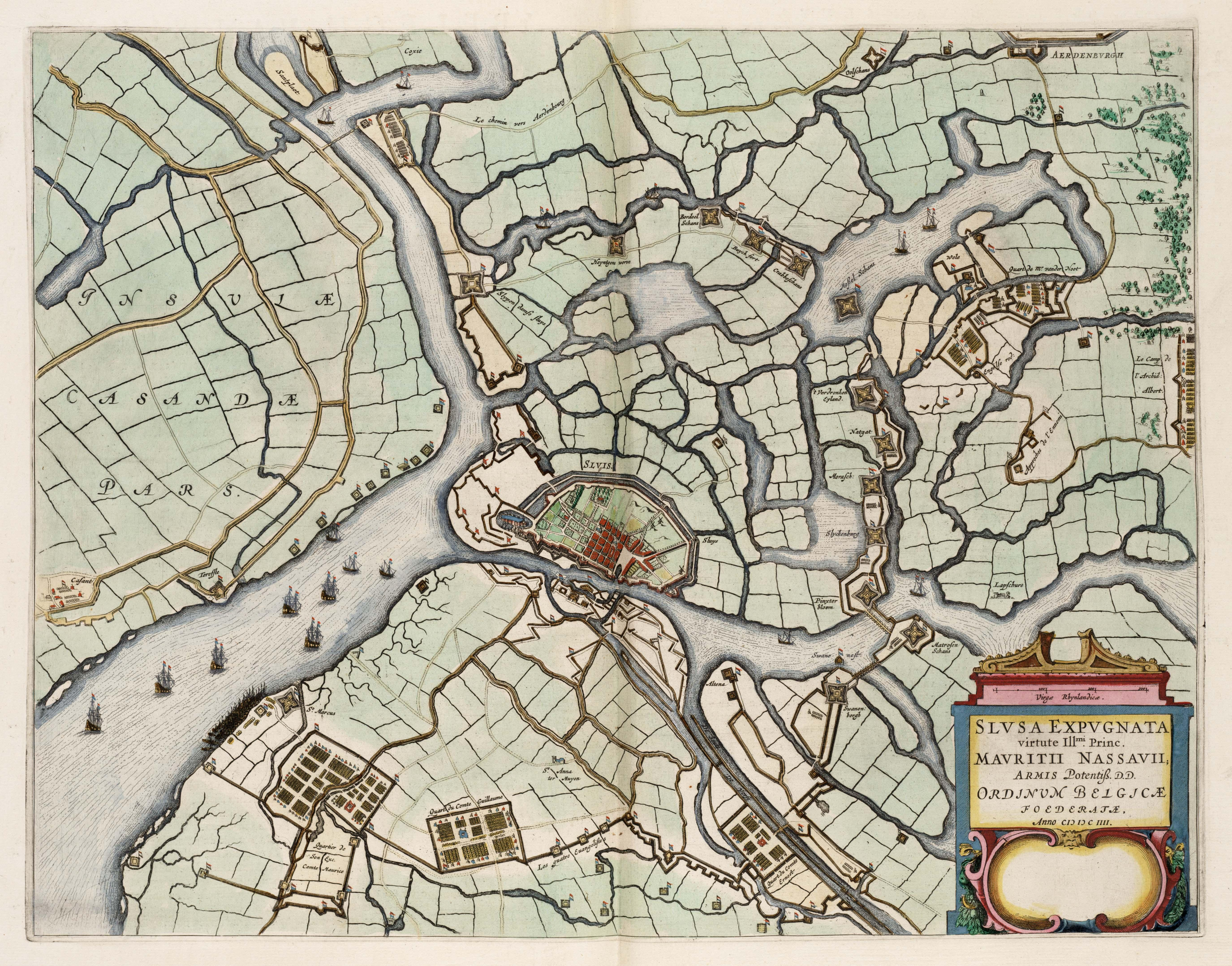 The capture of Sluis by Maurice of Orange in 1604